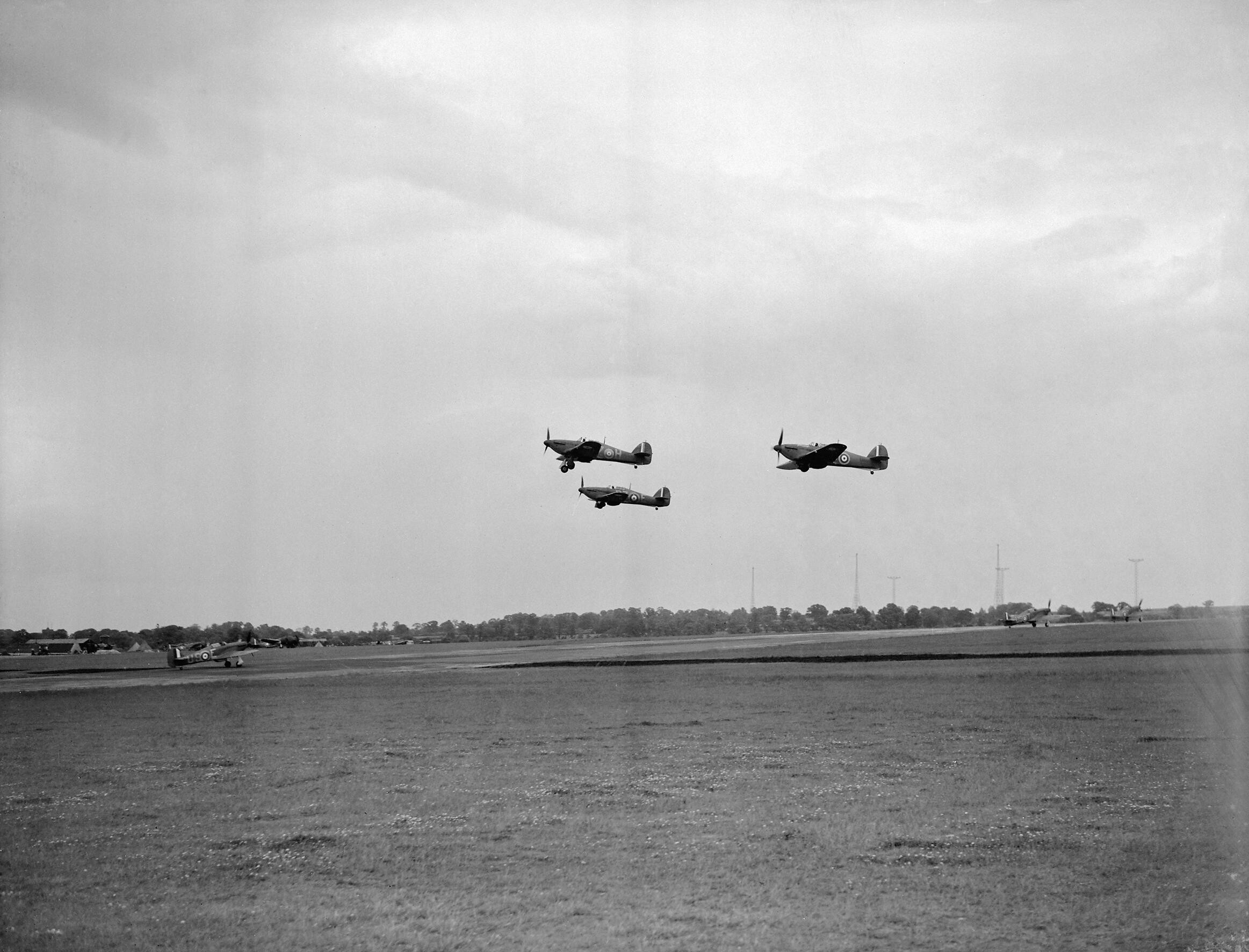 Royal Air Force Fighter Command, 1939-1945. A flight of Hawker Hurricane Mark Is of No. 151 Squadron RAF take off from North Weald, Essex, while beneath them, Hurricanes of 56 Squadron RAF taxy to the northern end of the main runway. Behind them can be seen the wireless masts of the GPO radio station at Weald Gullet.